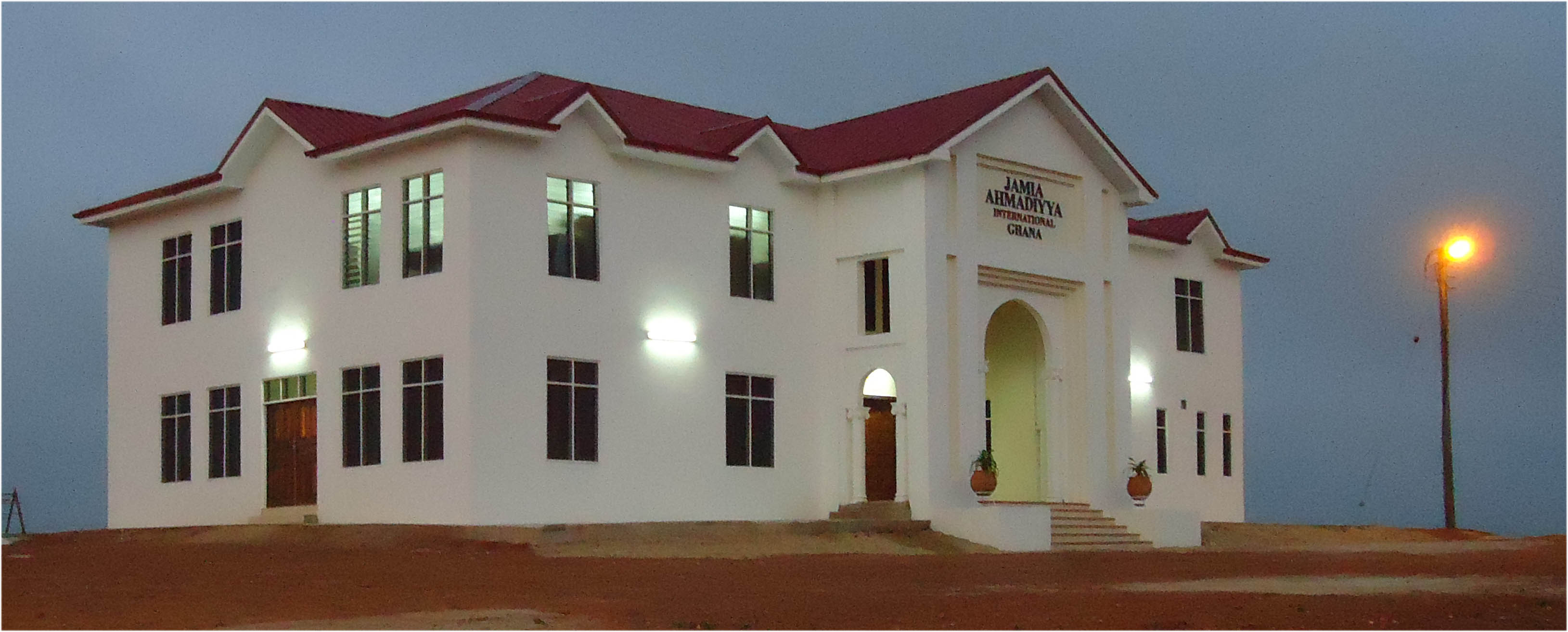 Newly constructed building of Jamia Ahmadiyya International Ghana, the International Ahmadiyya University of theology and scholastic sciences, which is inaugurated on 26 th August 2012.